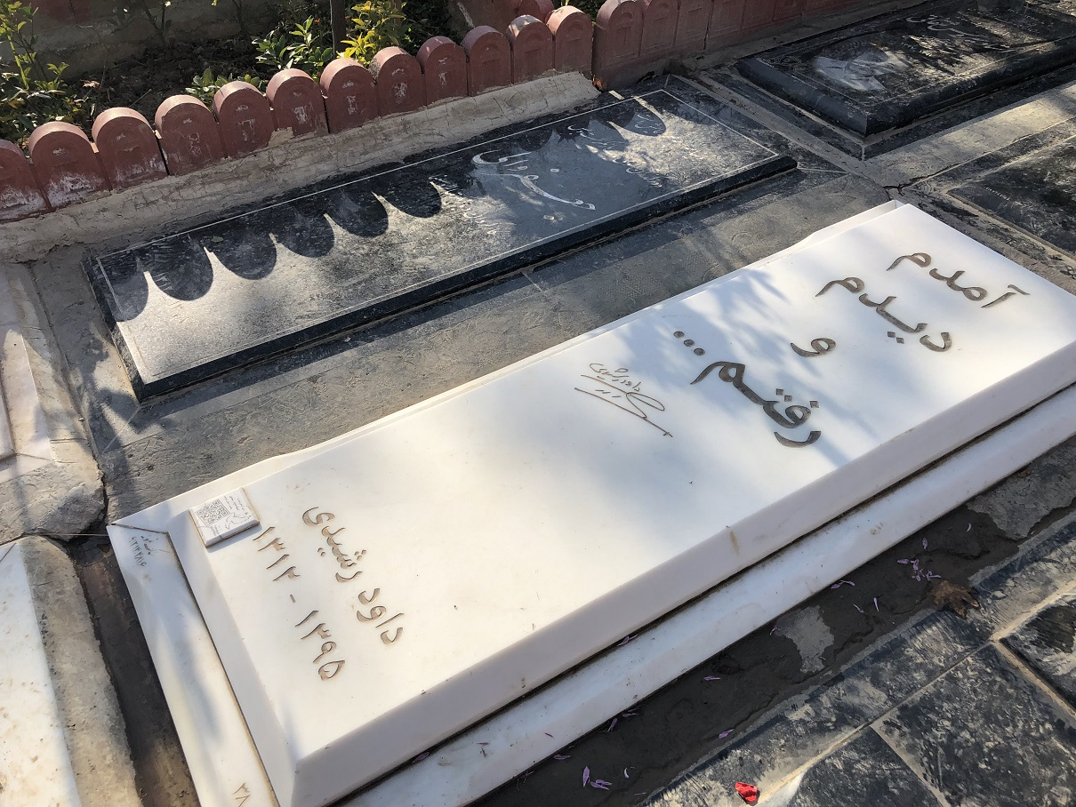 Beheshte Zahra Cemetery